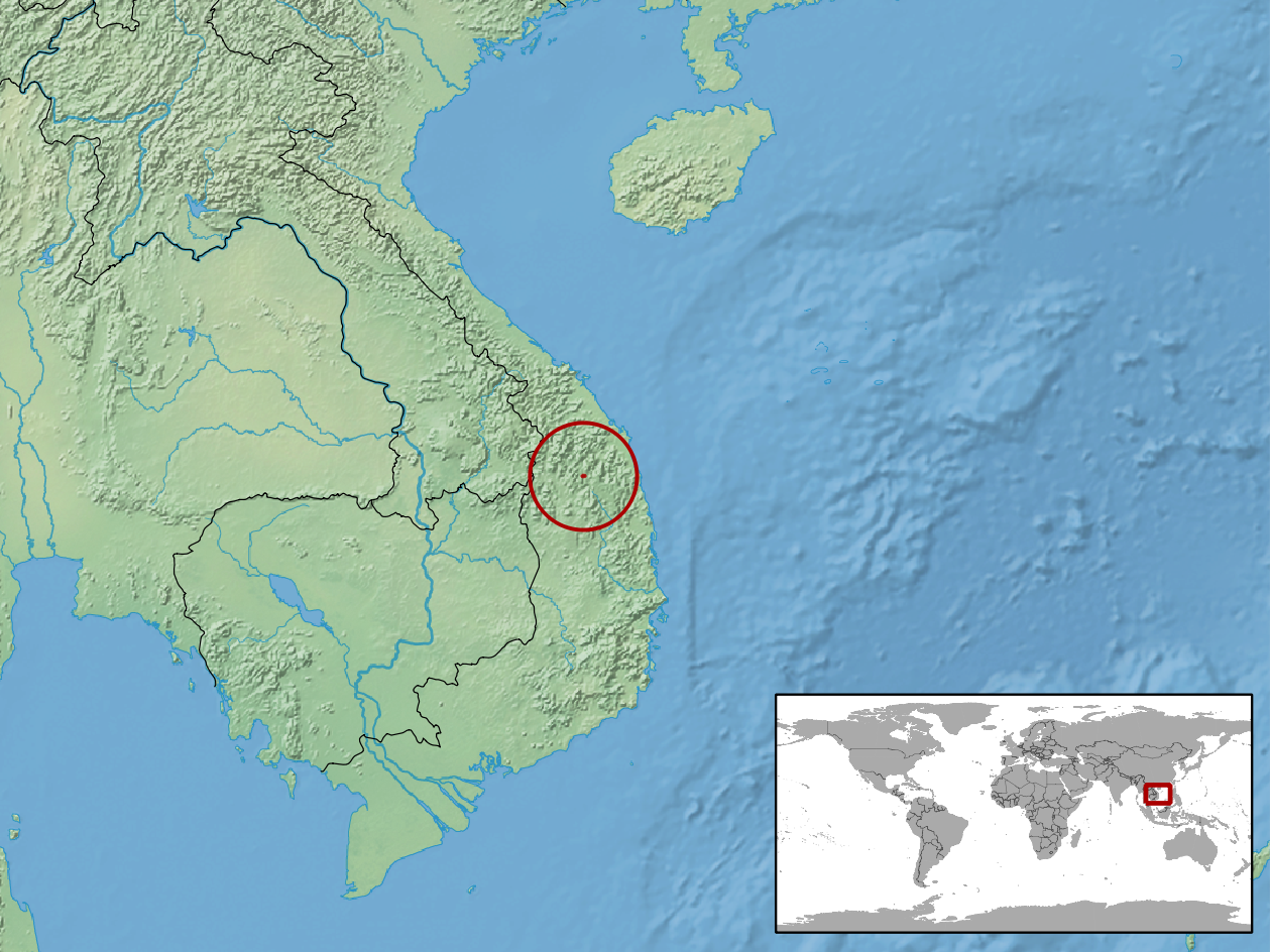 geographic distribution of Calamaria sangi (Native: Viet Nam)